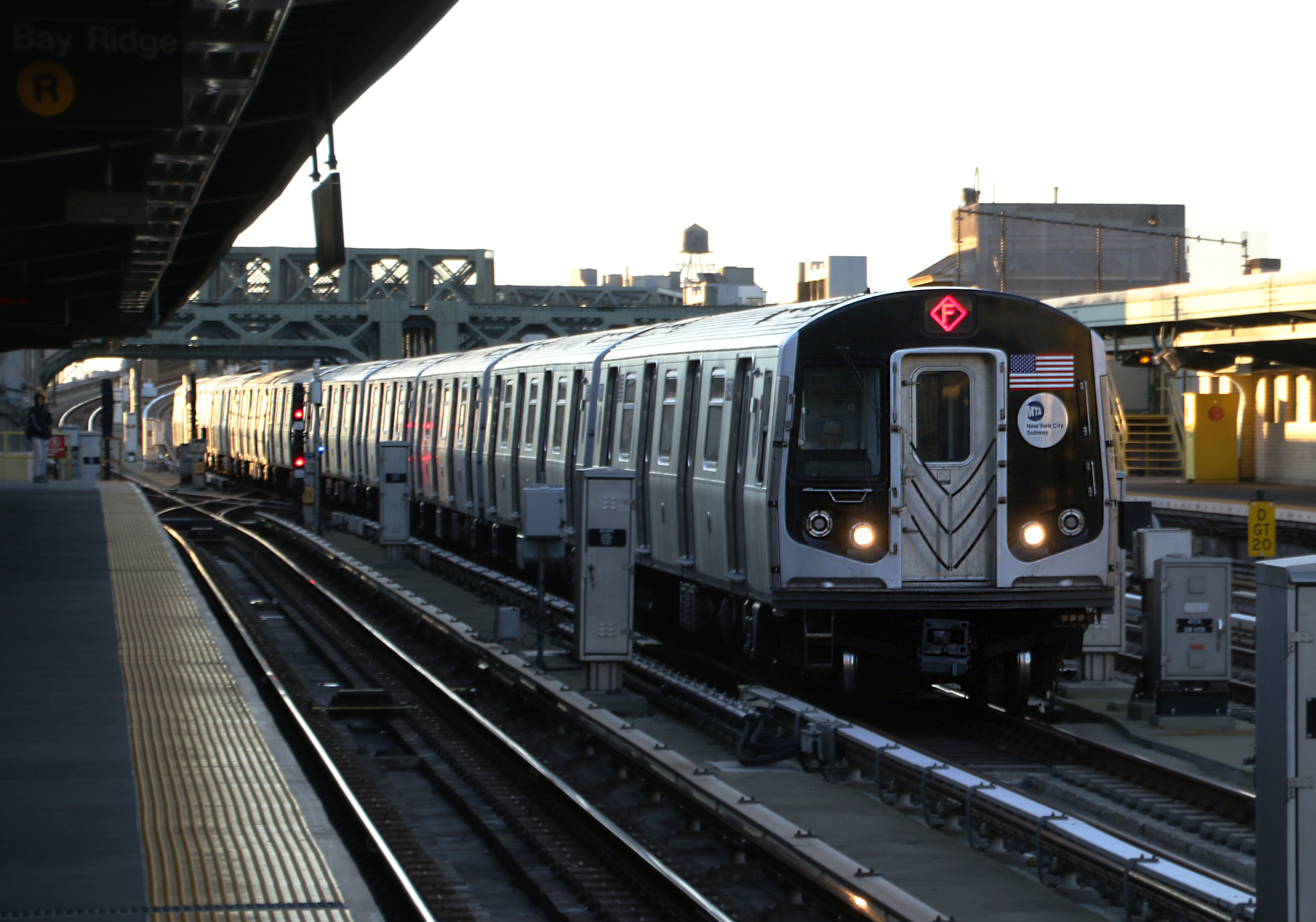 Jamaica/179th St-bound MTA NYC Subway F-express train of R160 cars at 4th Ave-9th Street.